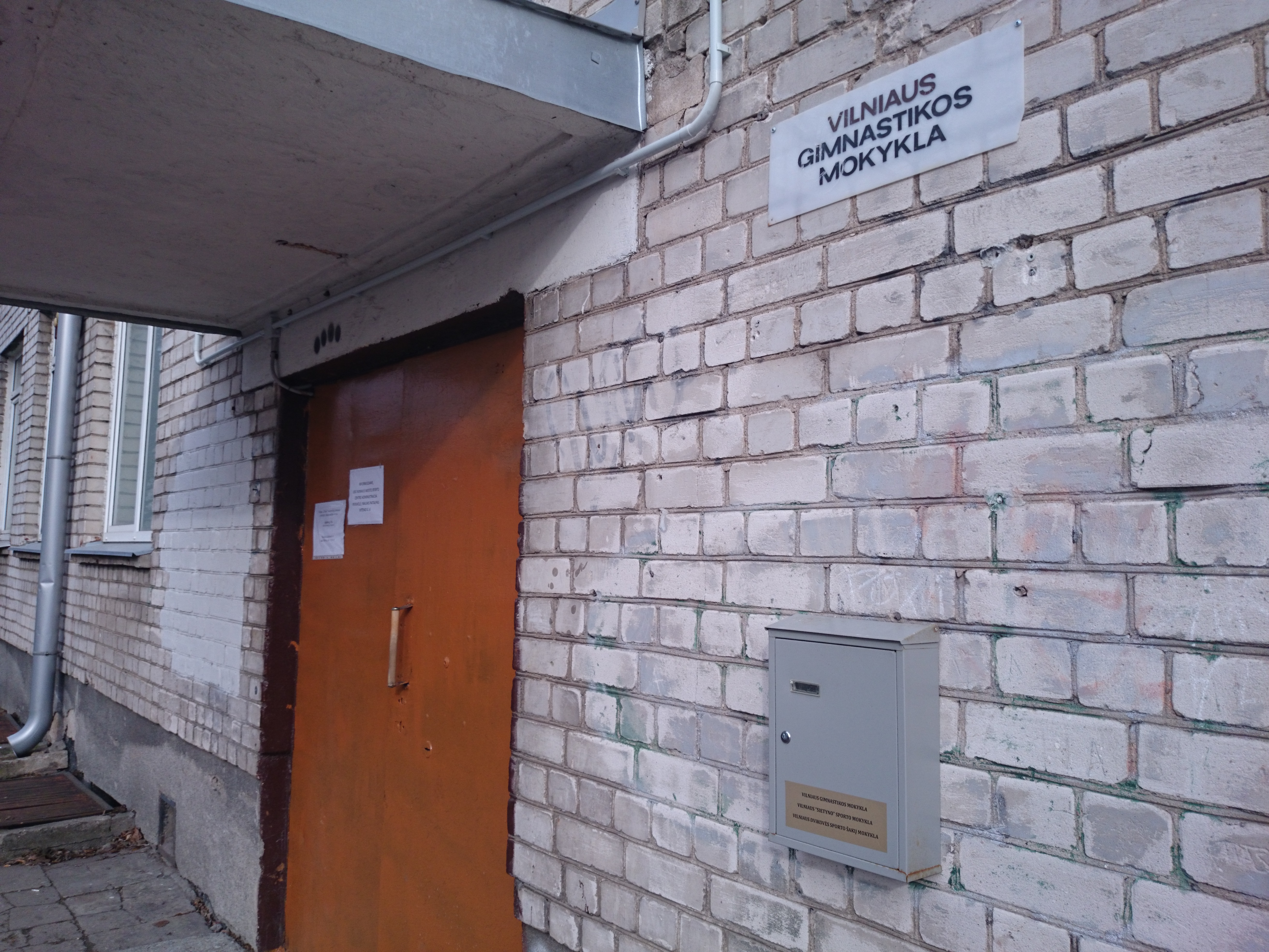 Gimnastikos mokykla, Vilnius